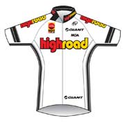 the team high road kit that will be replaced before the 2008 tour de france